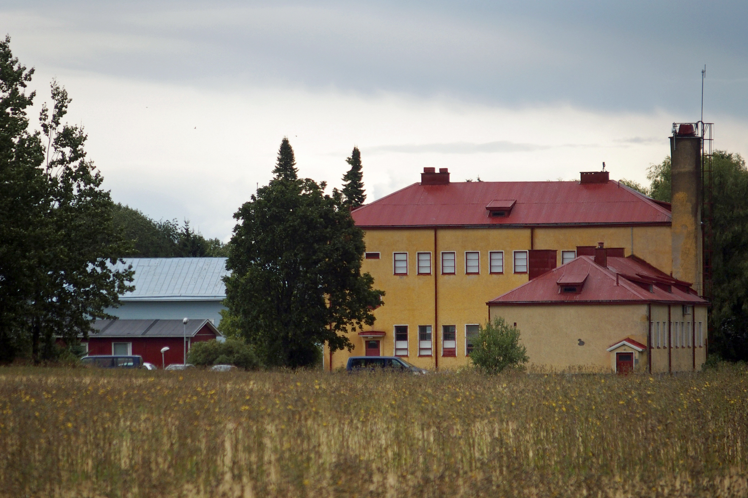 Former borstal for boys, today a prison.